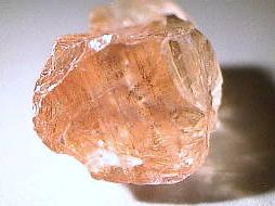 Picture of sunstone by John Bailey